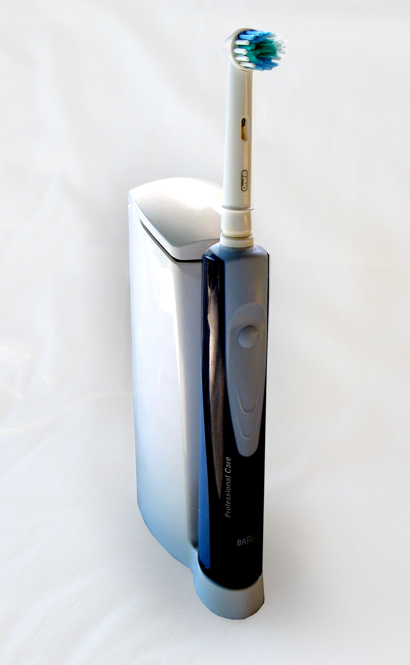 Electric toothbrush, photo taken in Sweden